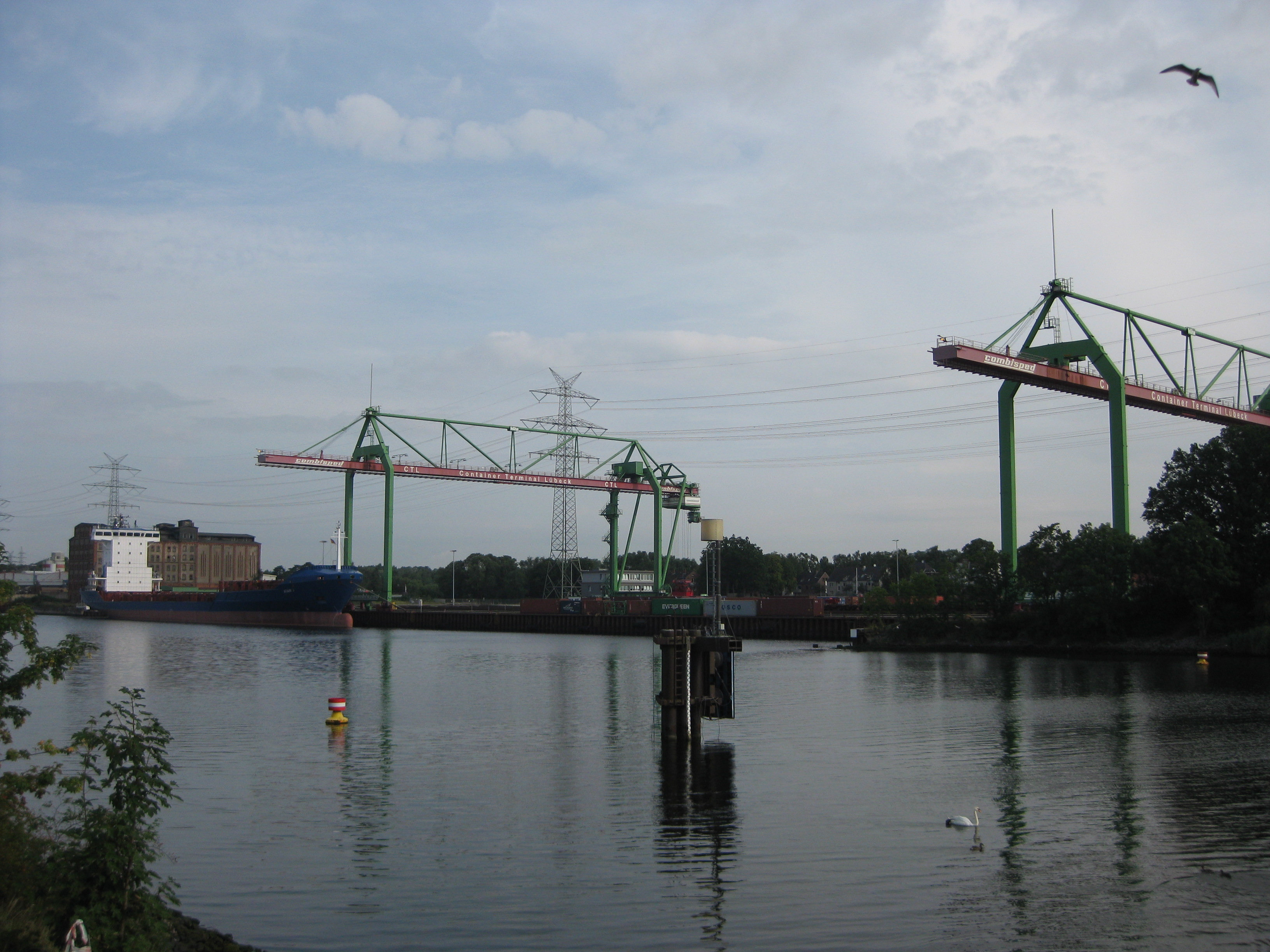 Container Terminal Lübeck in the district of Lübeck-Siems. A feeder ships receices containers brought by rail transport.